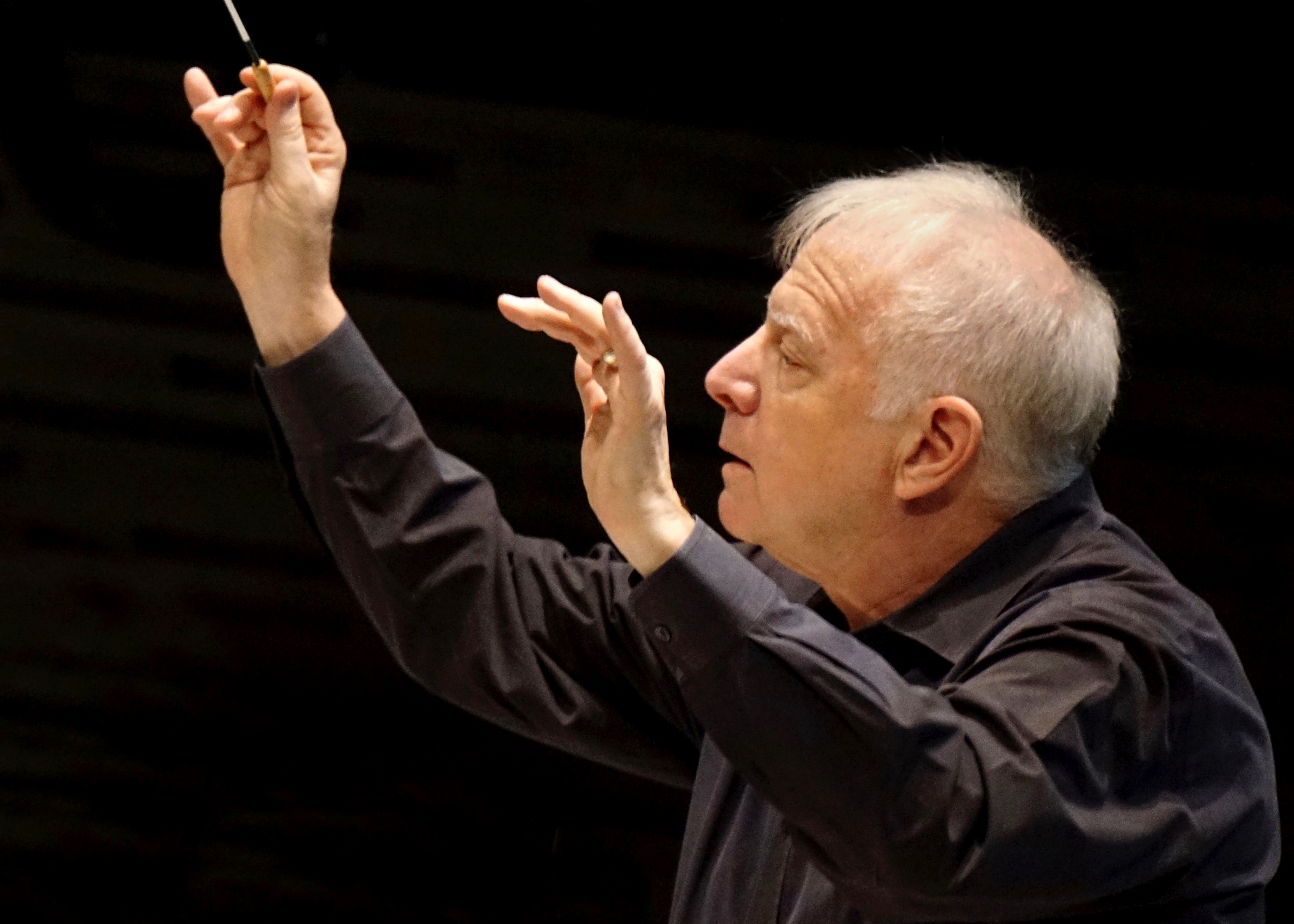 Leonard Slatkin in rehearsal, conducting the Orchestre National de Lyon.